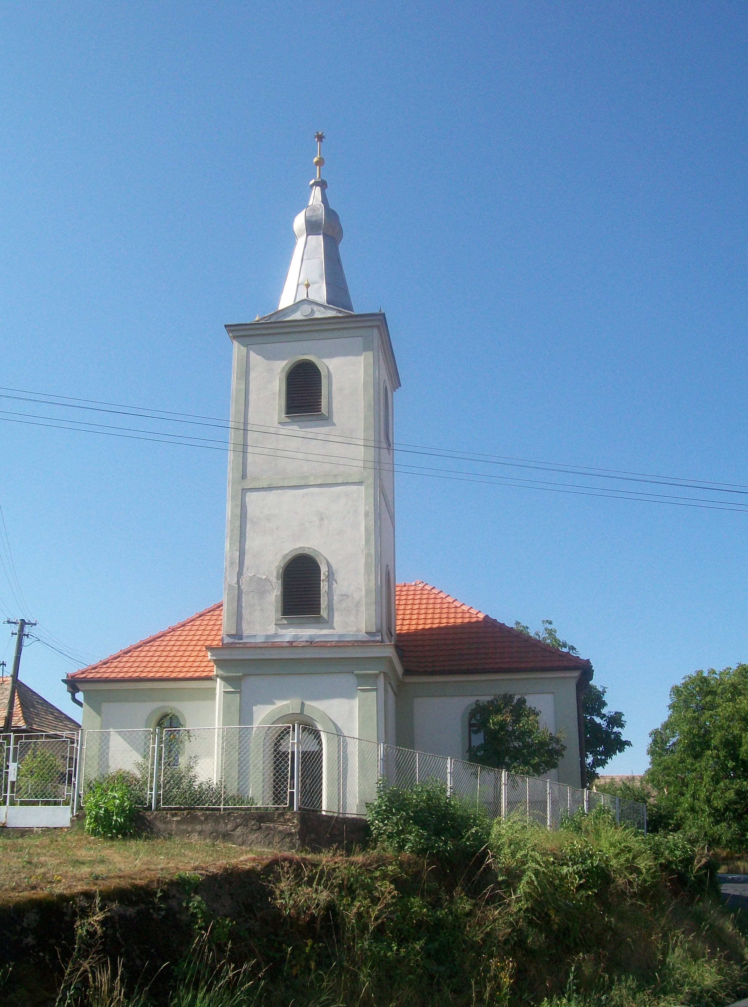 Evangelical Church in Breznička, built in 1862 (late Classicism)